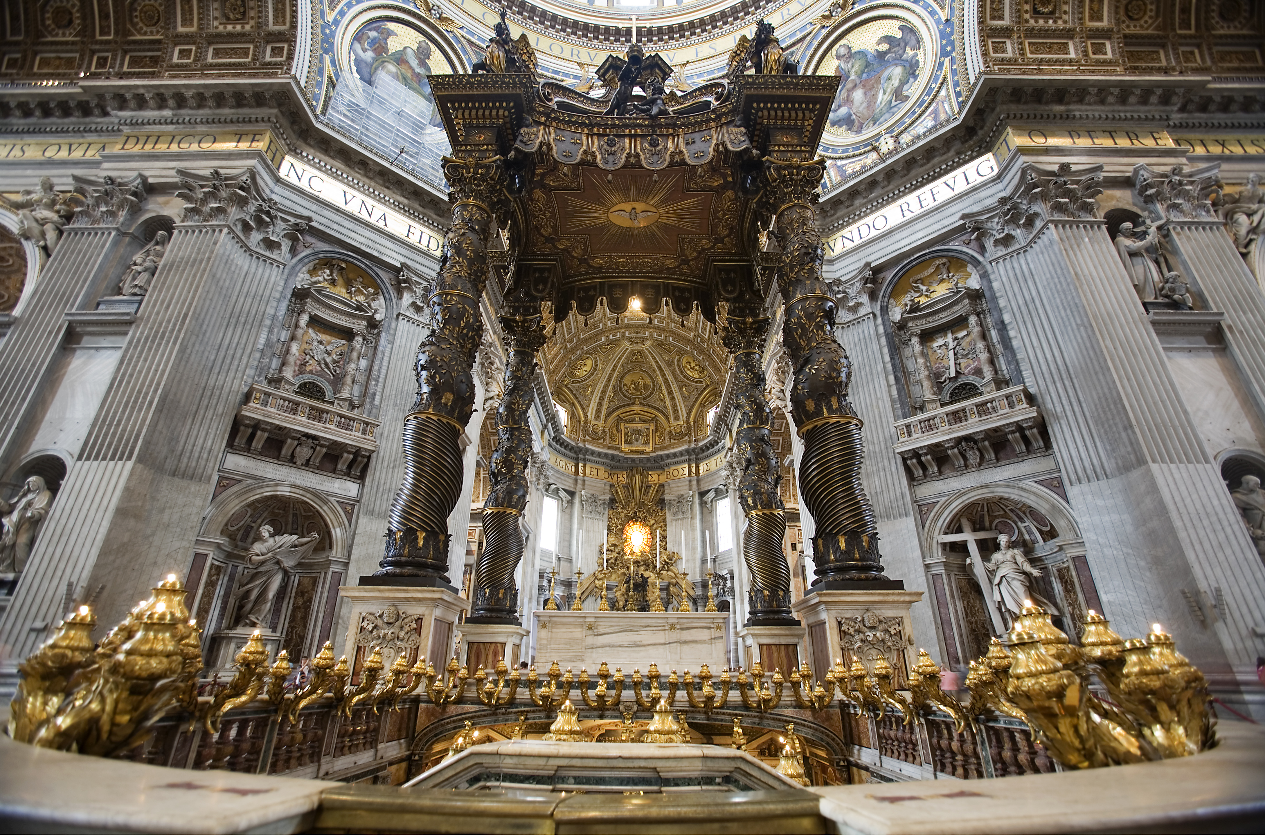 Details of the ceiling, dome and Bernini Baldacchino or Baldaquin at St Peter's Basilica or Basilica di San Pietro, Rome, Italy